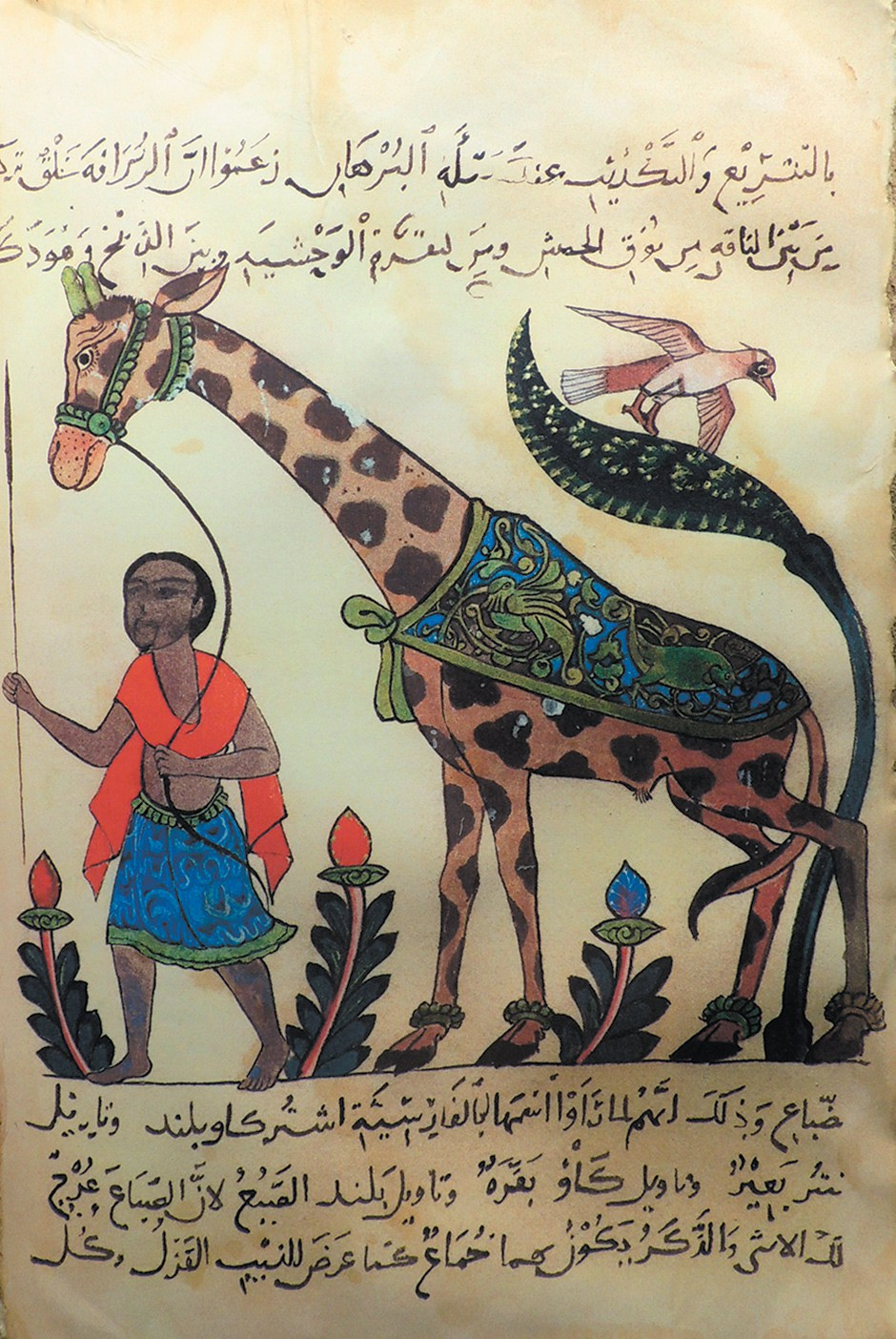 A giraffe from Kitāb al-ḥayawān (Book of the Animals) by the 9th century naturalist Al-Jahiz.